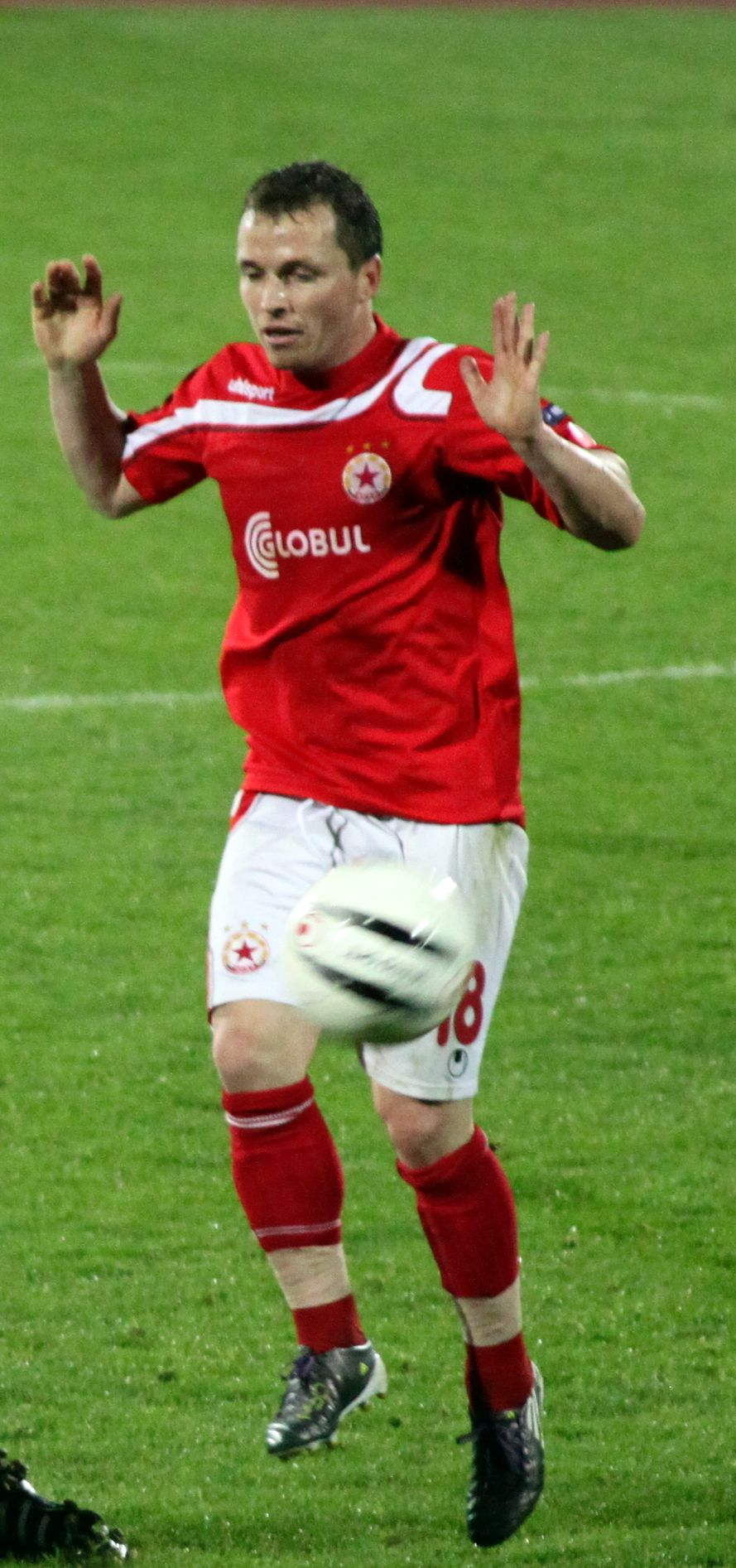 Boris Galchev - bulgarian soccer player